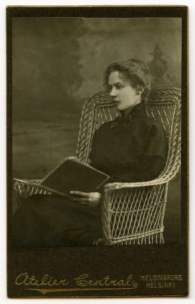 Photograph of the Finnish children’s author and translator Karin Antell (1880–1948).